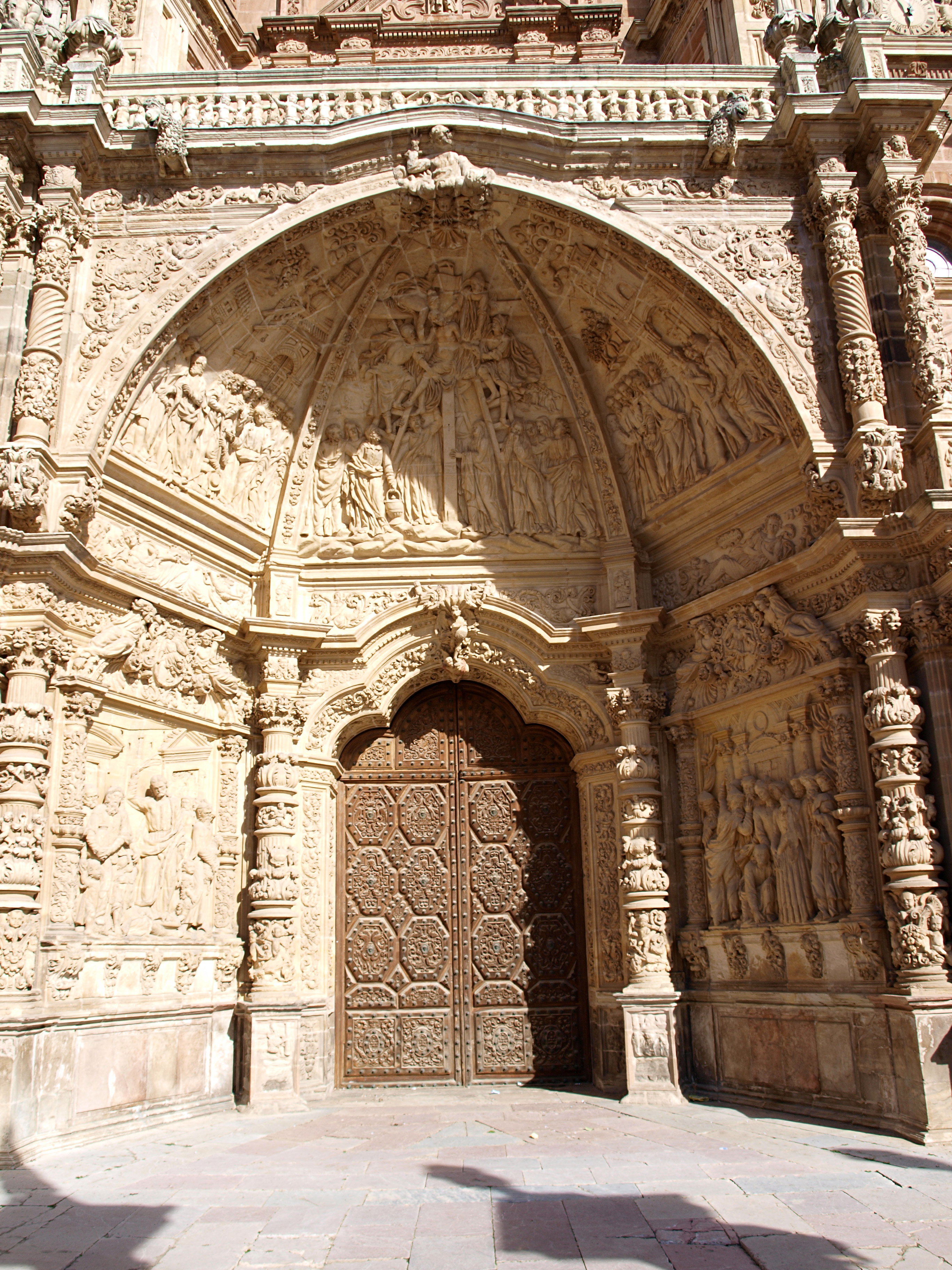 Astorga Cathedral, Astorga (Province of León, Spain).